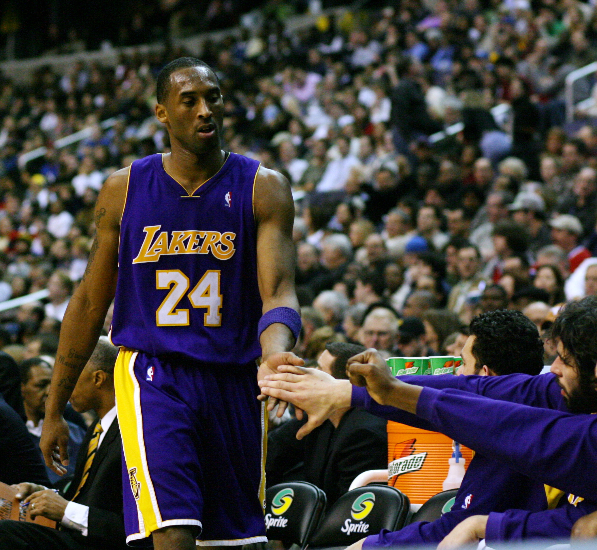 Kobe Bryant subs out vs the Washington Wizards.